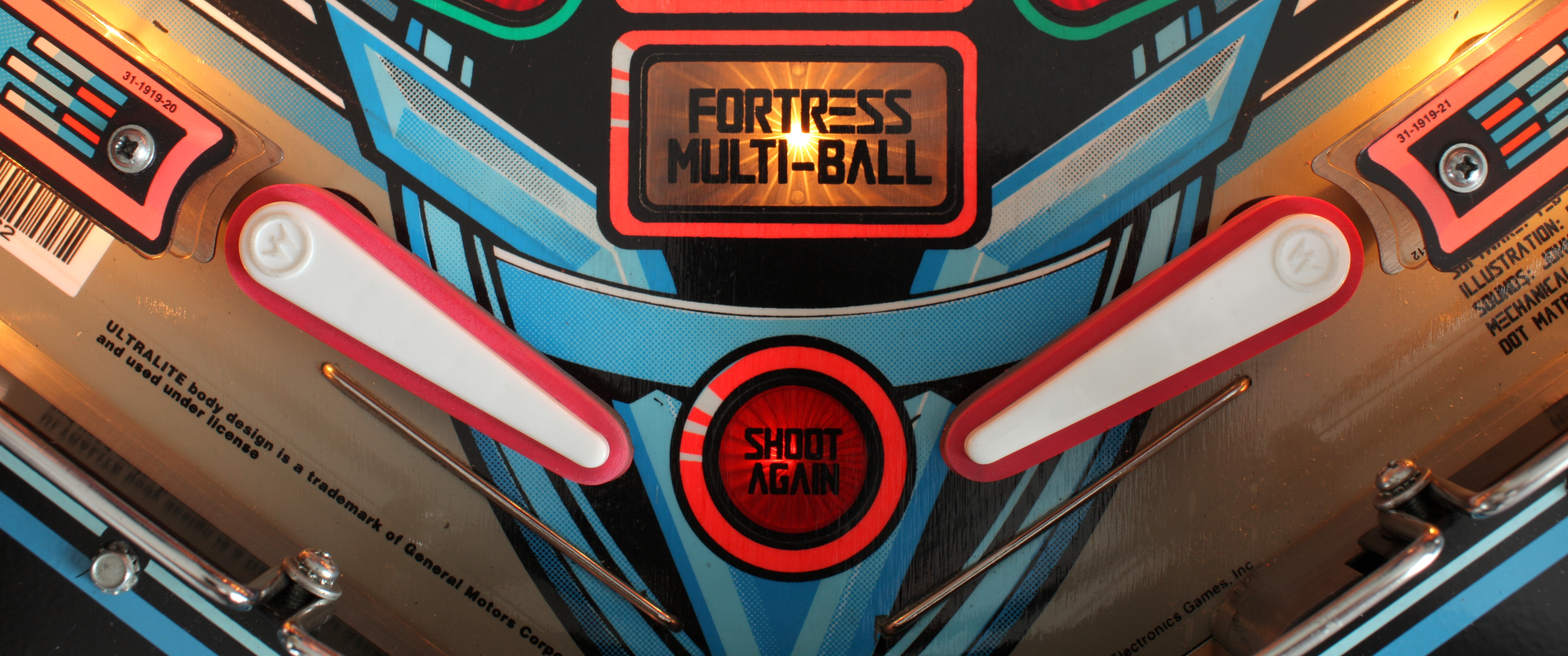 Flippers of the Williams pinball game "Demolition Man".